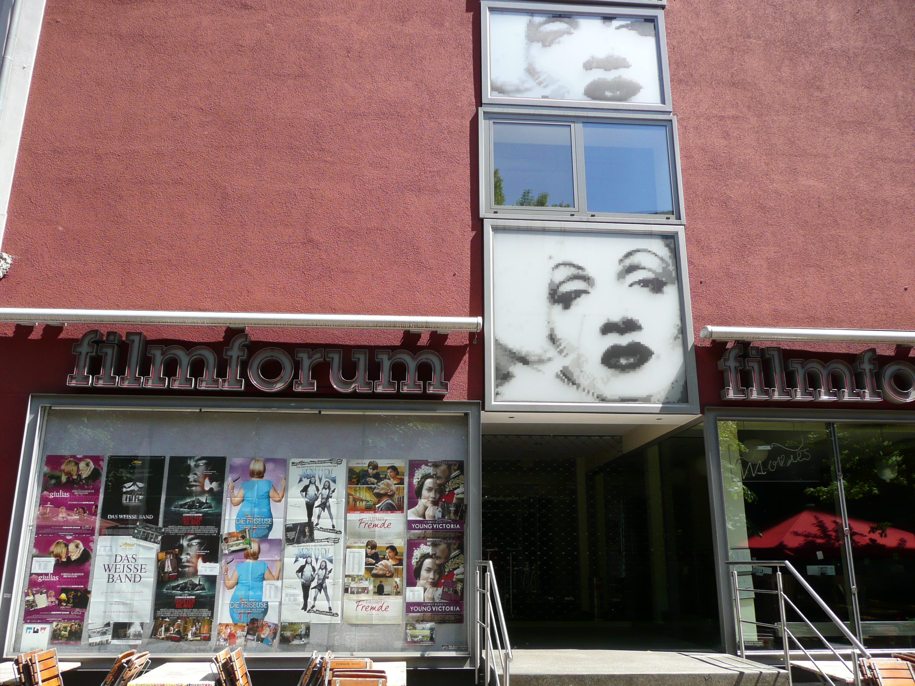 frontside of filmforum Duisburg